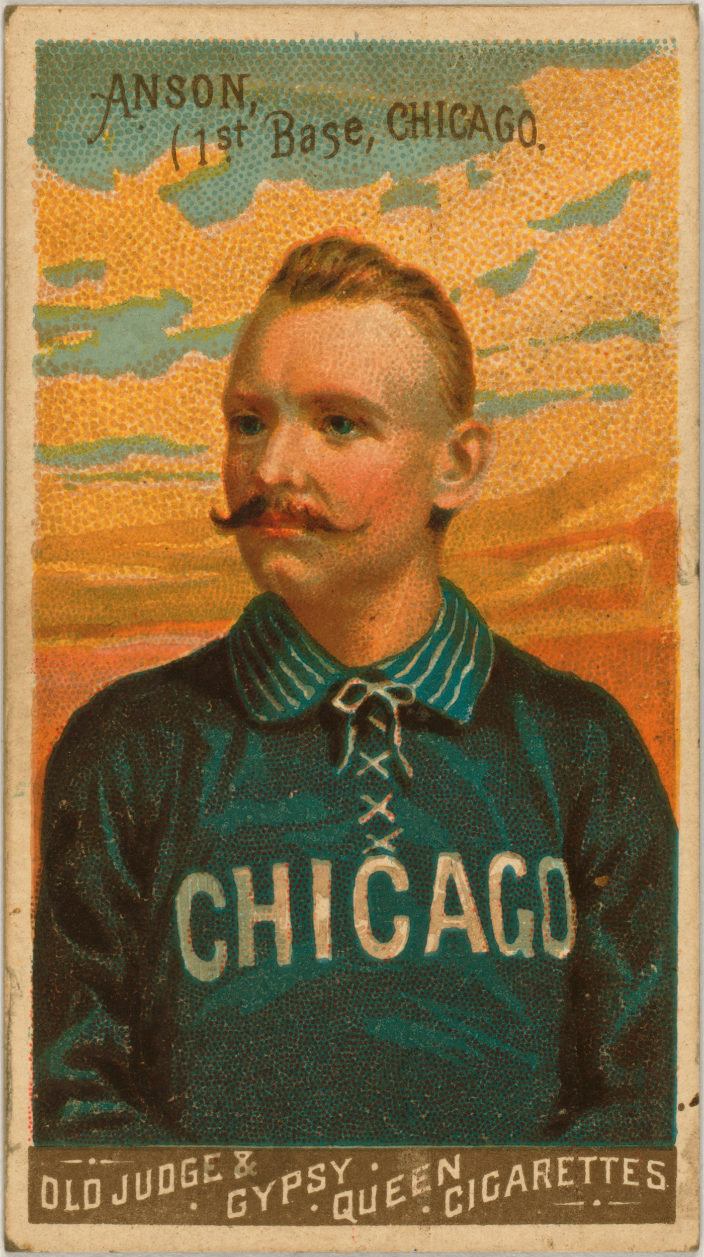 Cap Anson – first baseman, Chicago White Stockings, National League Taken from full-size tiff file Edges: skewed to set vertical/horizontal Borders: Desaturated (-60), lightened (+20), contrast enhanced (+10), cropped (10px border) Card: Contrast enhanced (+5), black dirt manually removed w. stamp tool Image downsampled nonproportional to 2500x1400px, 100ppi Converted to jpg at 8/10, 5 progressive scans